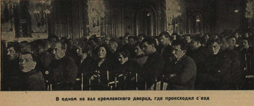 15th Congress of the All-Union Communist Party (Bolsheviks)